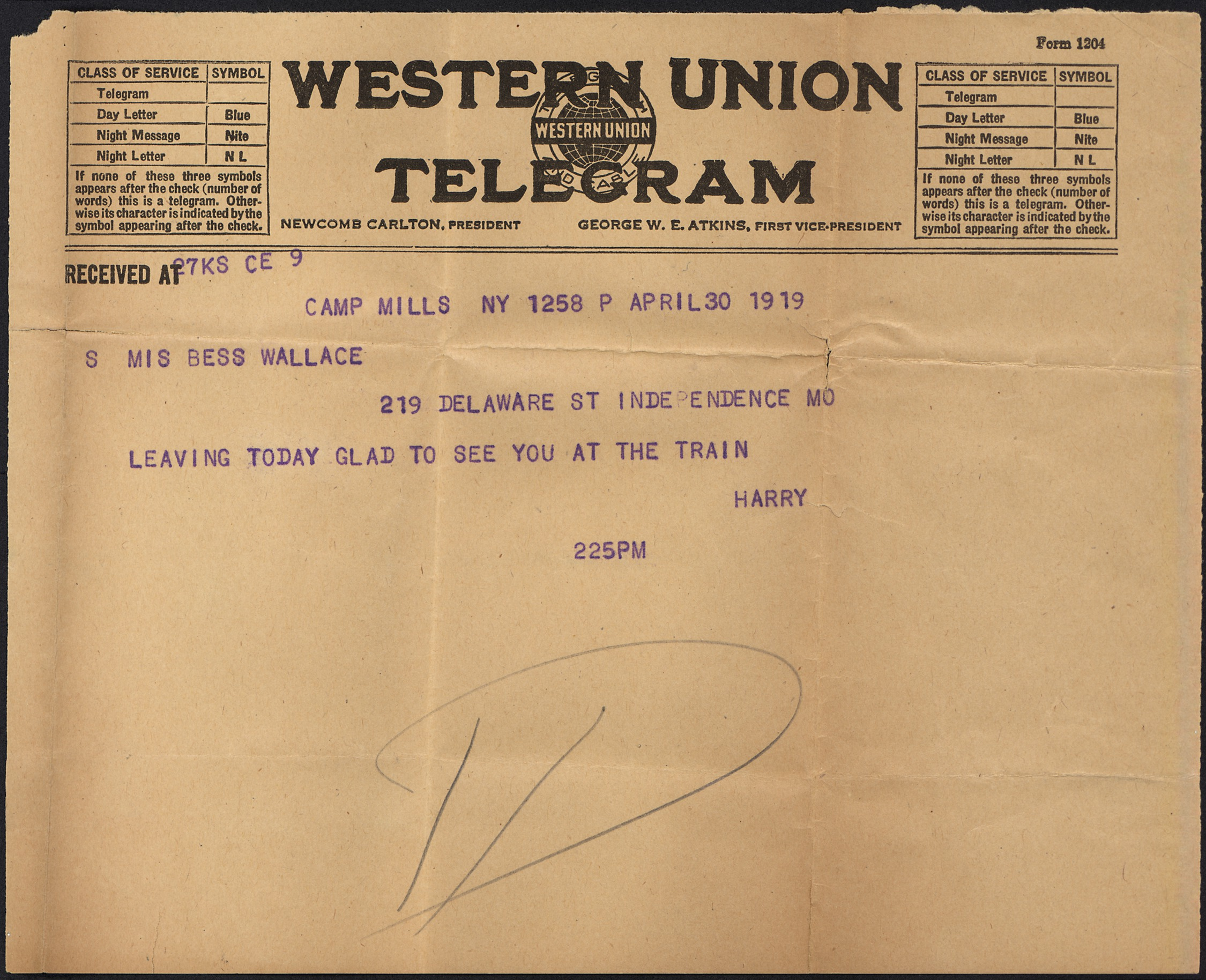 Scope and content: Truman tells Bess that he is leaving Camp Mills today and looks forward to seeing her soon.